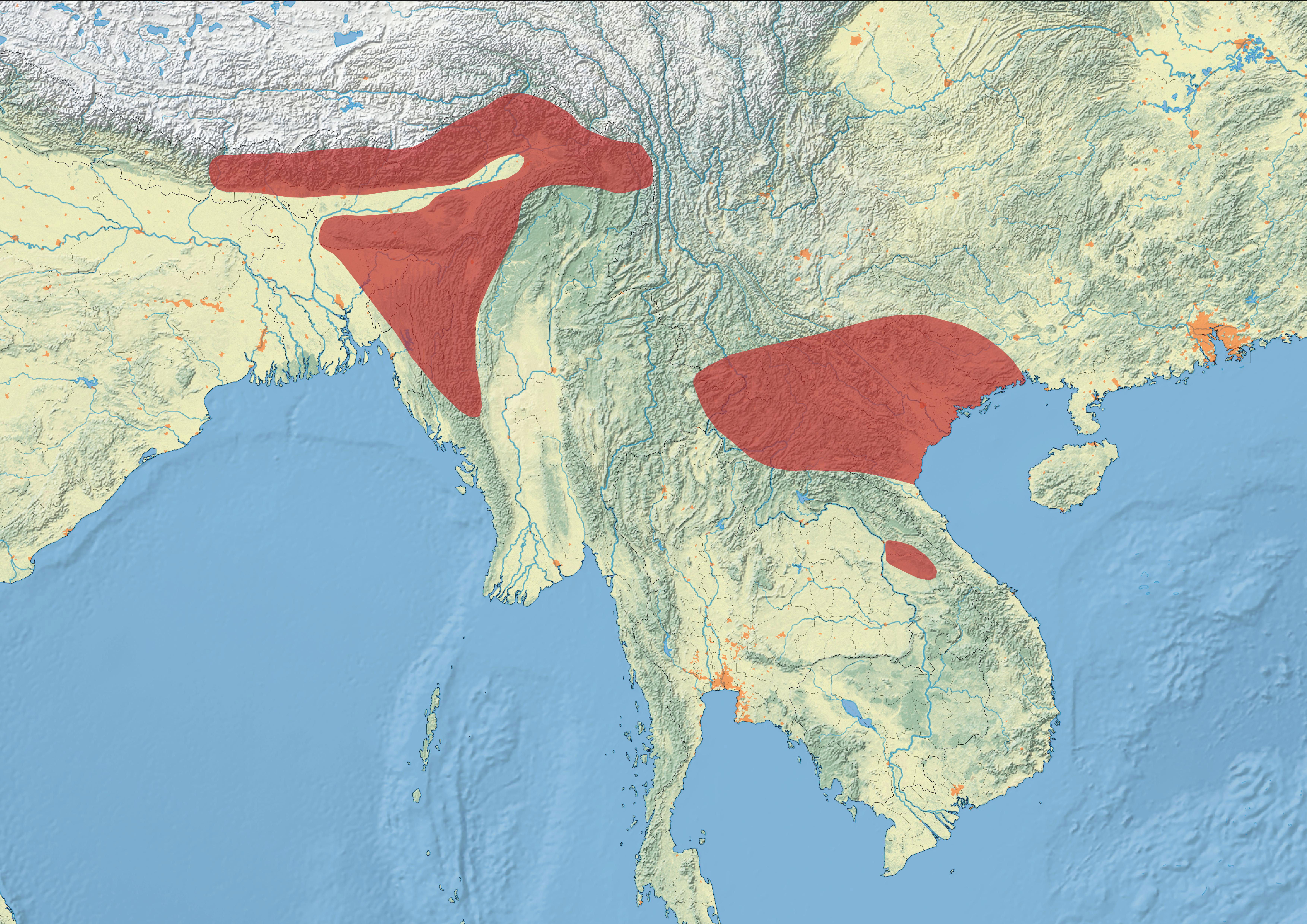 The IUCN Distribution of Blue-naped Pitta Maroon = Resident Purple = Breeding Orange = Non-breeding Hatched = Passage Grey = Possibly Extinct Blue = Introduced